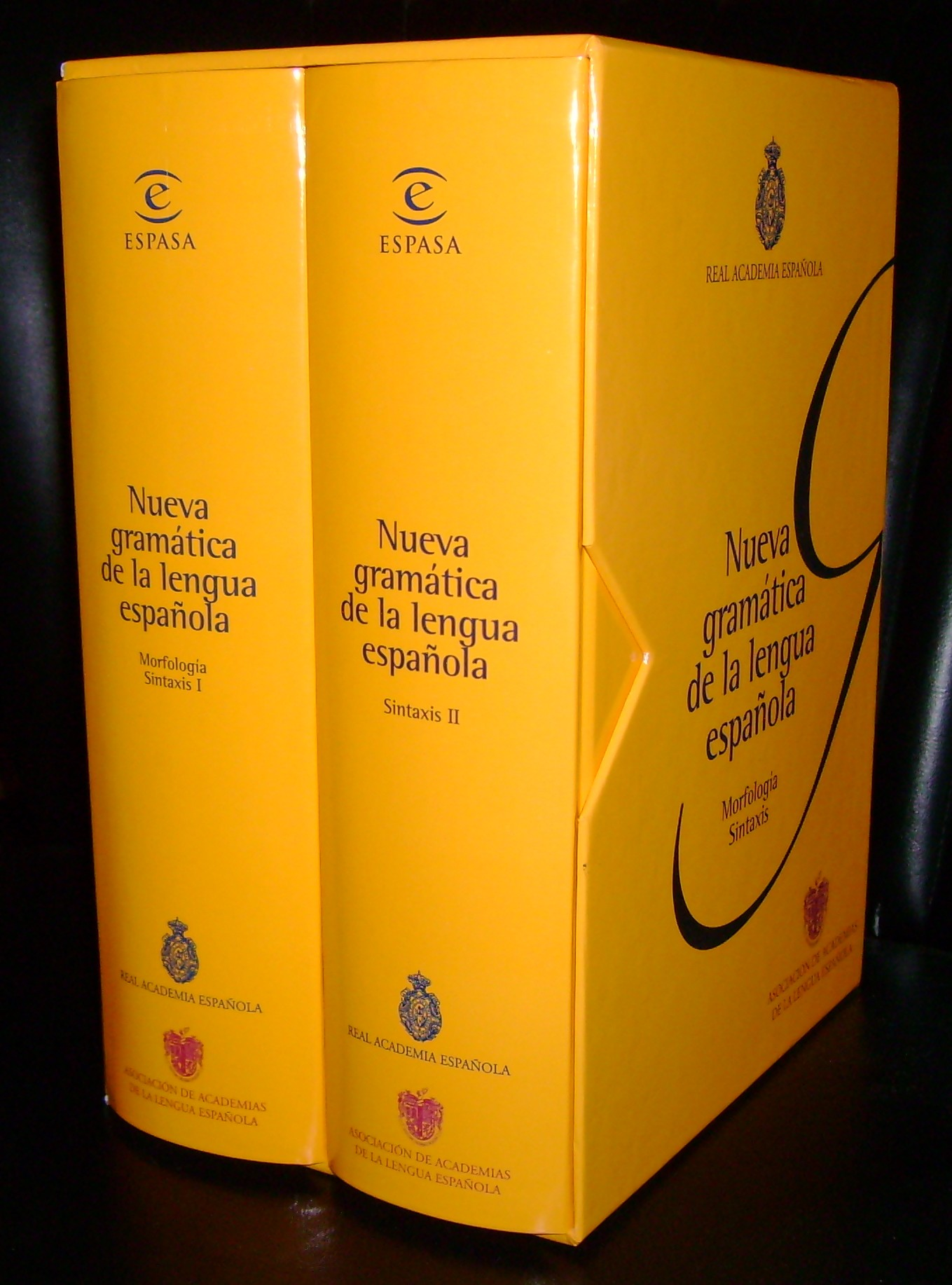 New Spanish Grammar